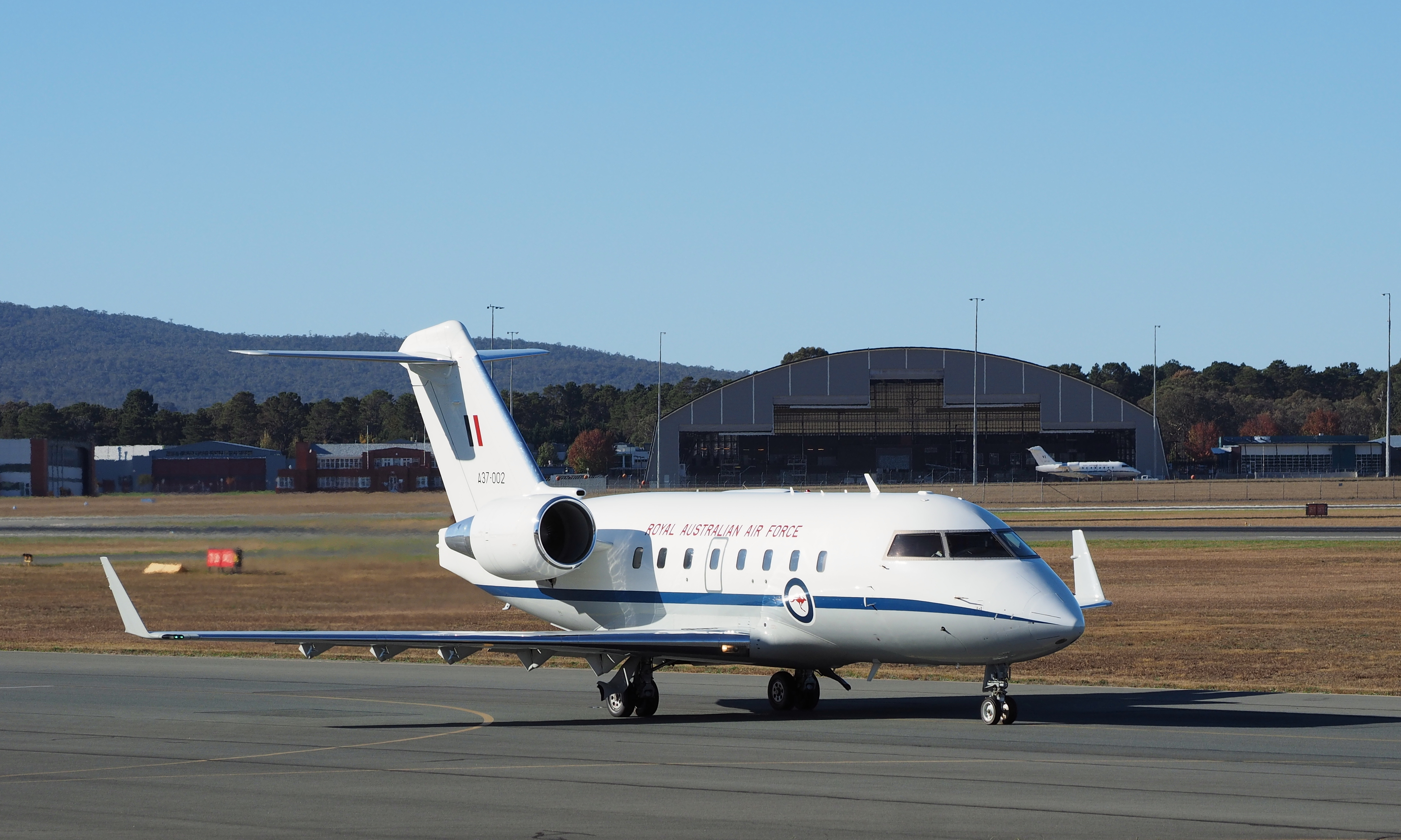 Canadair Challenger A37-002 in front of Defence Establishment Fairbairn